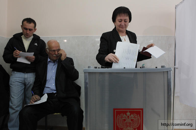 Alla Dzhioyeva, first round of 2011 presidential election in South OssetiaИрон: Джиоты Аллæ хъæлæс кæны 2011-æм азы президенты бынатмæ æвзæрстыты фыццаг туры